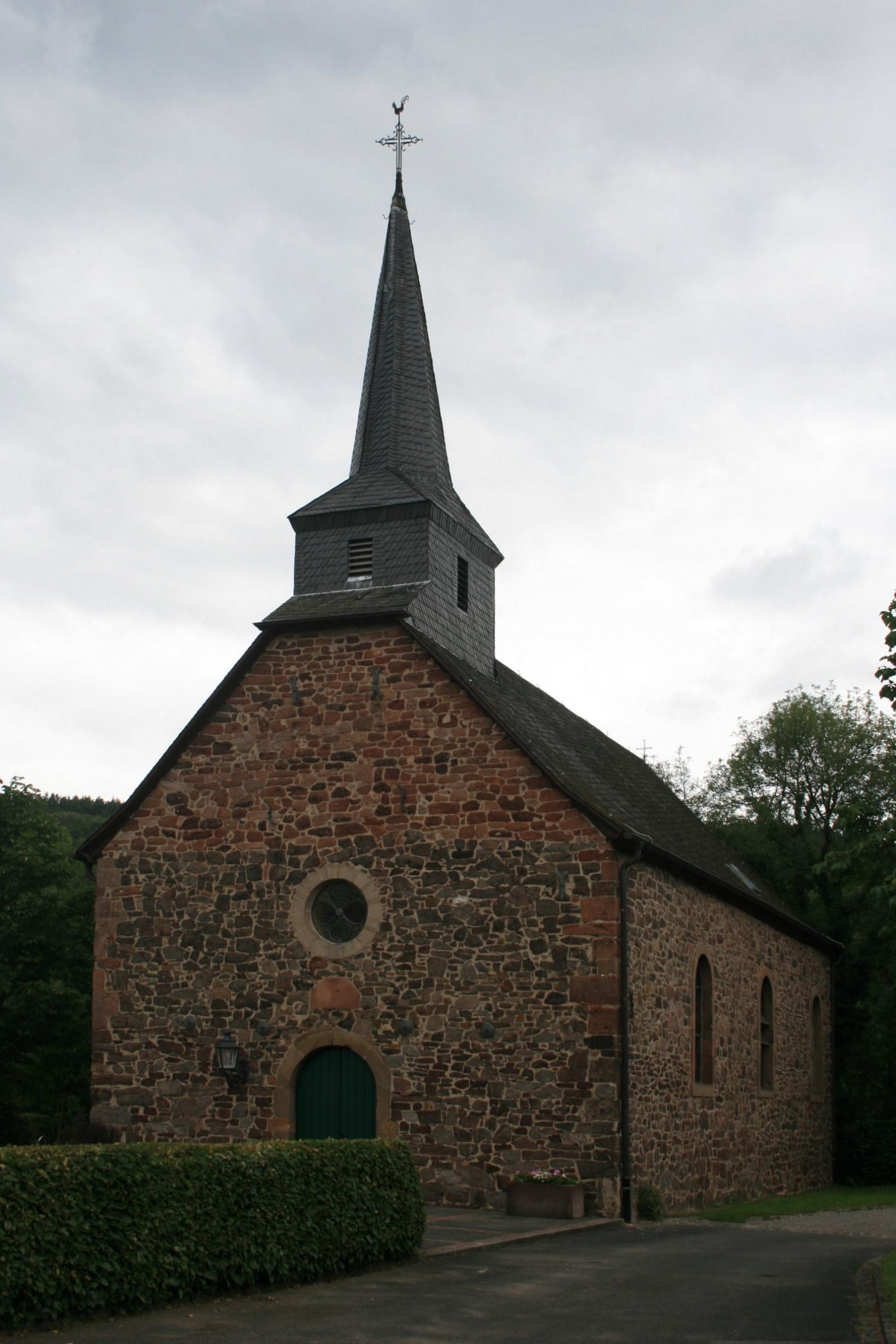 Cultural heritage monument No. 15 in Heimbach